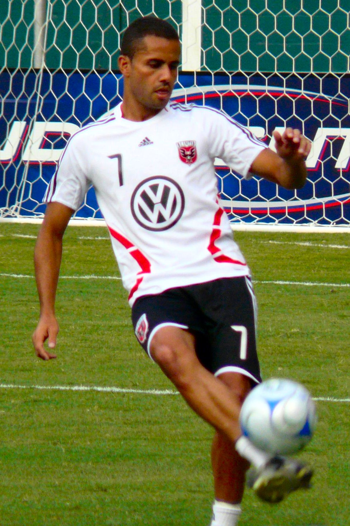 Fred warming up before a Major League Soccer (MLS) Superliga match between D.C. United and Chivas at RFK Stadium, Washington, DC.